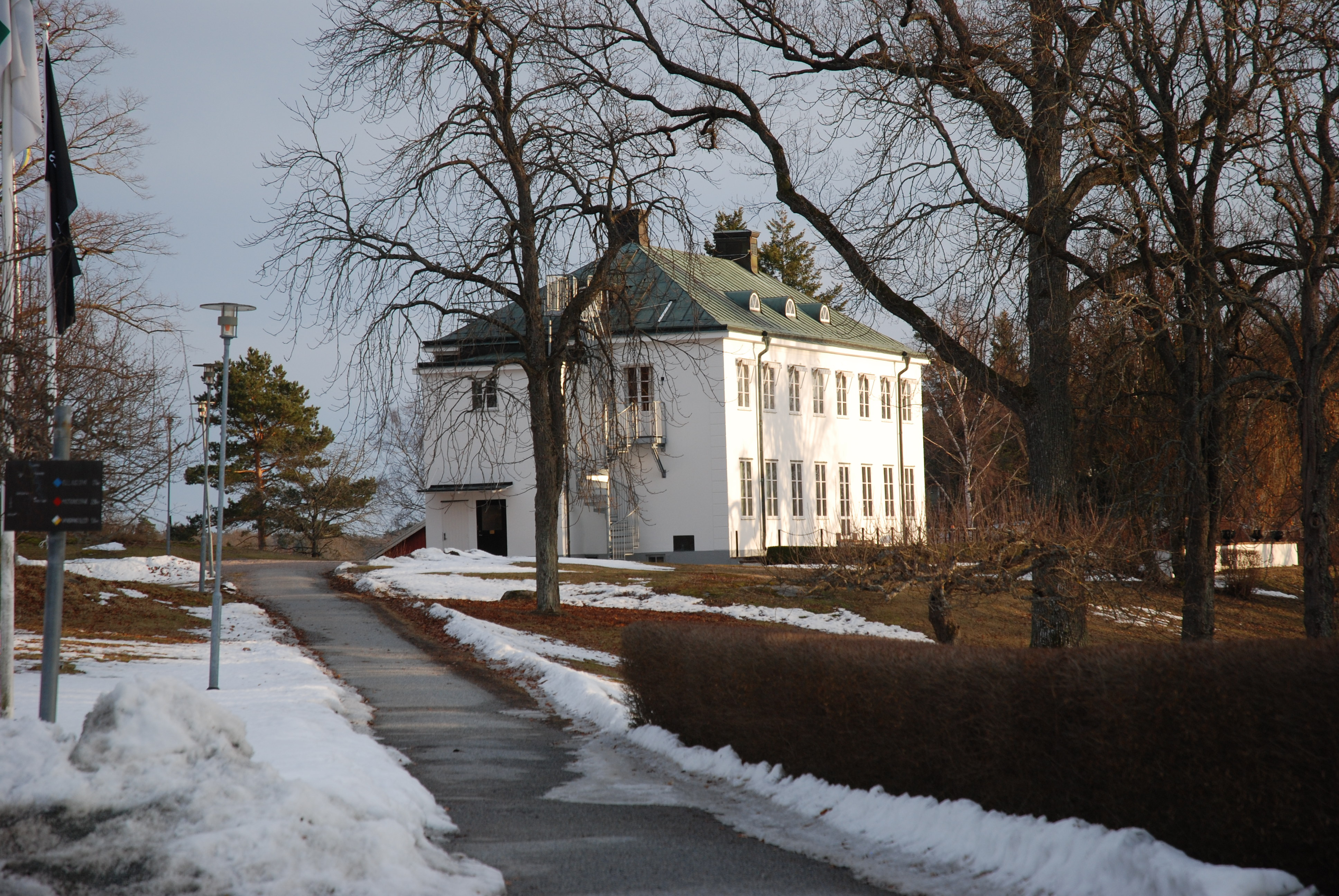 Sånga-Säby Manor, Ekerö, Sweden